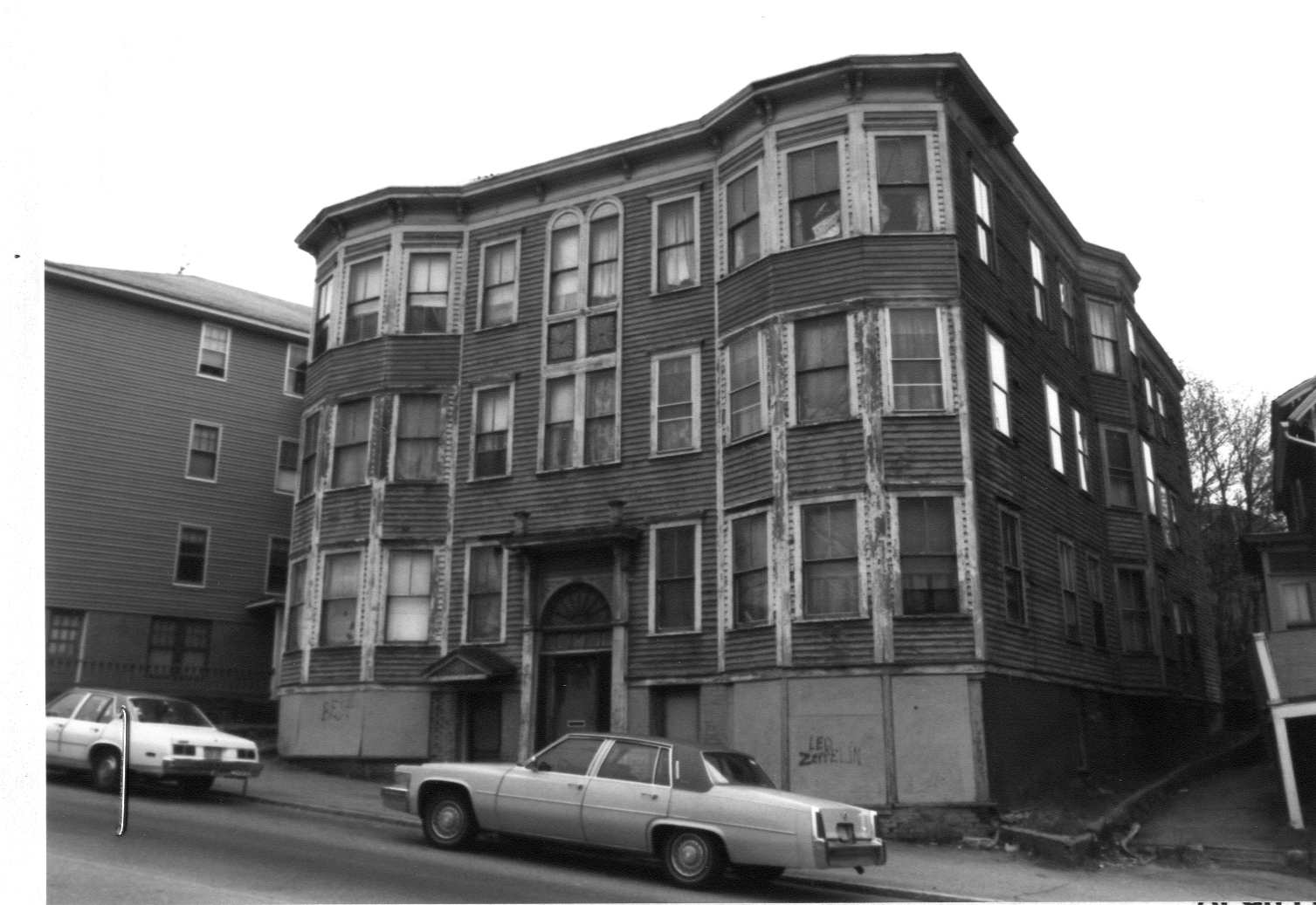 Mary Dean Three-Decker, Worcester, Massachusetts. This building has been demolished.